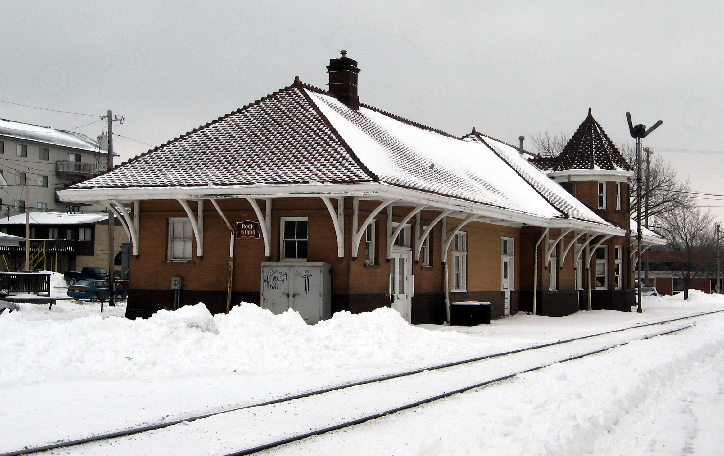 Chicago, Rock Island and Pacific Railroad Passenger Station, usually called the Iowa City depot.